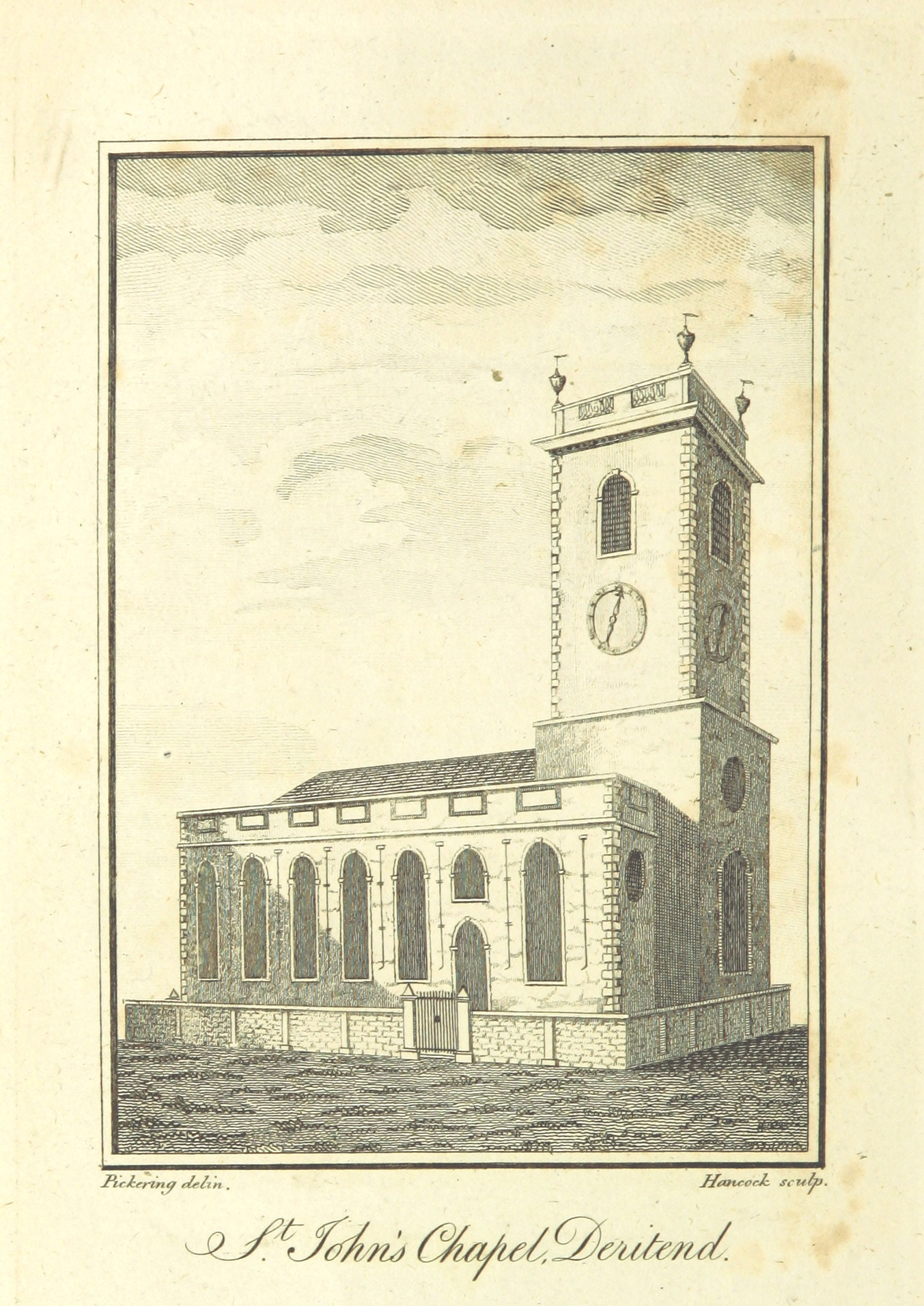 St Johns Chapel, Deritend, Birmingham. Image extracted from page 298 of An history of Birmingham ... With a new introduction by Christopher R. Erington.', by William Hutton. Original held and digitised by the British Library. Copied from Flickr Note: The colours, contrast and appearance of these illustrations are unlikely to be true to life. They are derived from scanned images that have been enhanced for machine interpretation and have been altered from their originals.